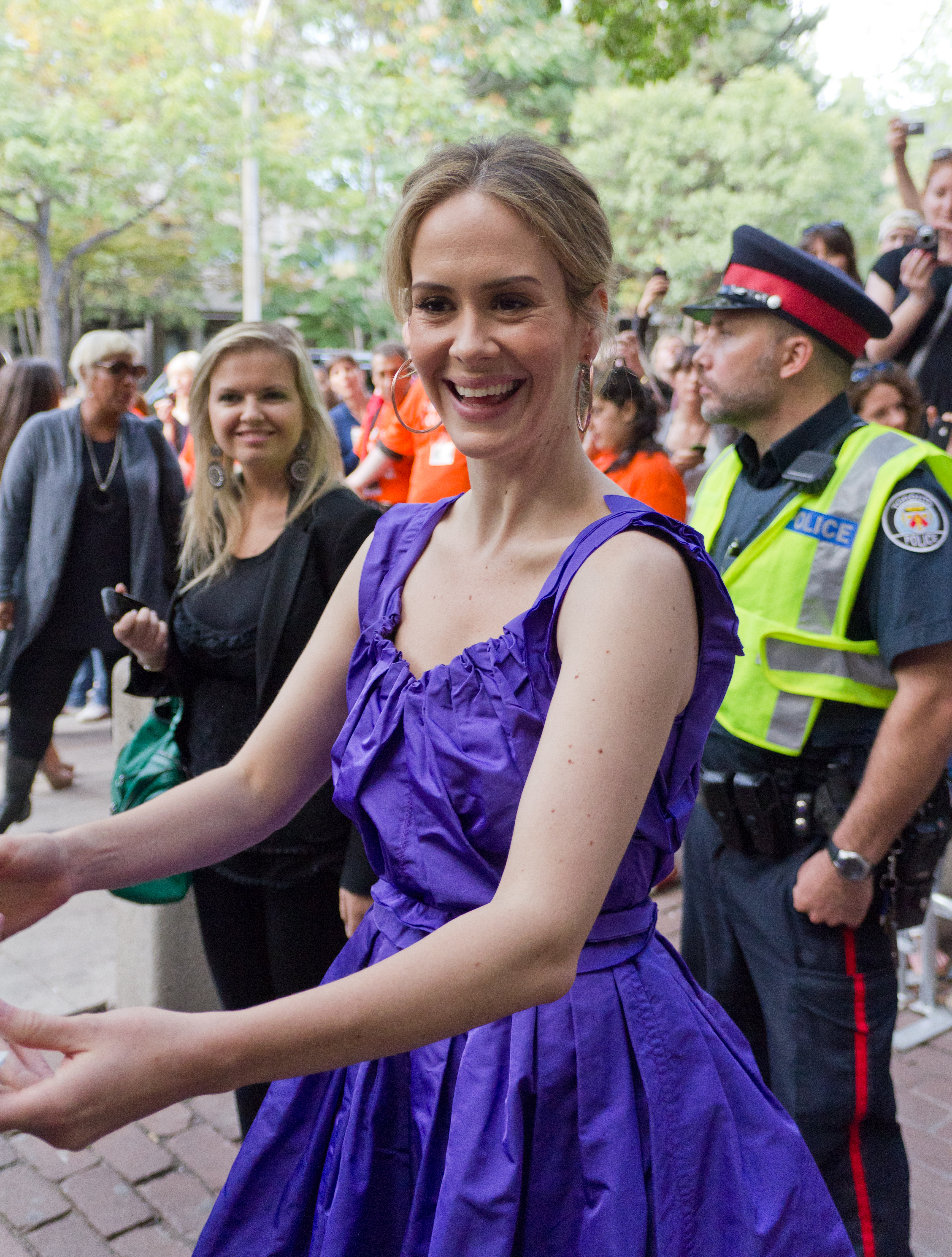 Actress Sarah Paulson leaving the Toronto International Film Festival screening of Martha Marcy May Marlene